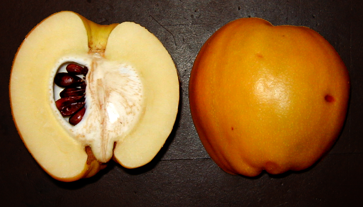 Chaenomeles sp. (Flowering Quince) fruit, bisected meika loofs samorzewski, Fruit off a plant grown at Bream Creek, Tasmania